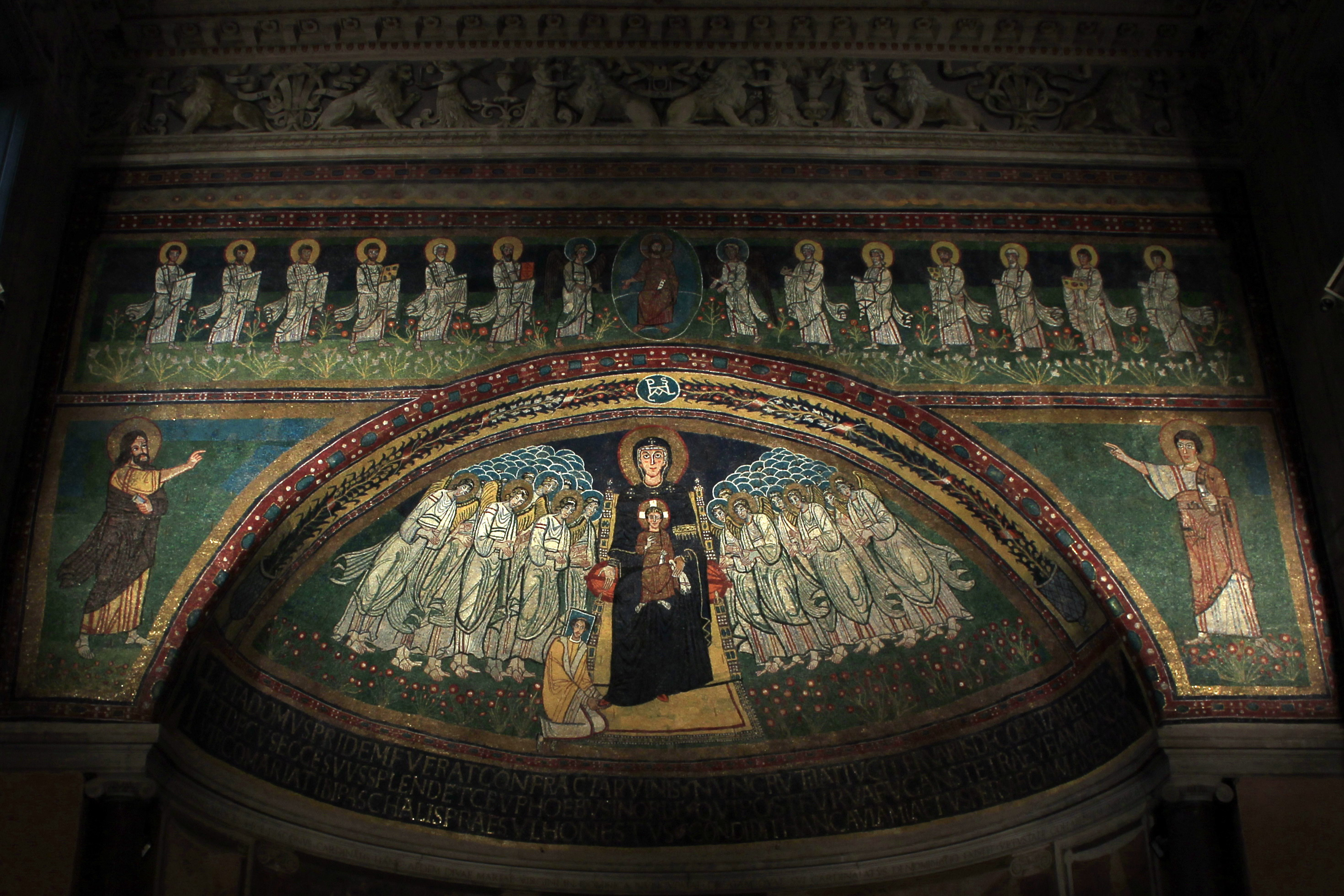 IX century apse mosaic in Santa Maria in Domnica